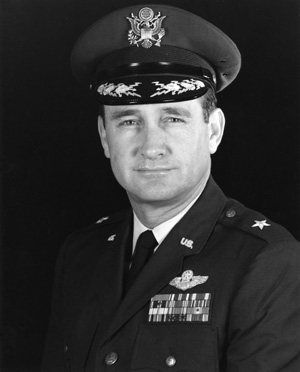 Brigadier General James U. Cross served in the U.S. military from 1944 until his retirement in 1971. He was Armed Forces Aide and personal pilot to the president of the United States from 1961-1968. Photo courtesy of US Air Force.